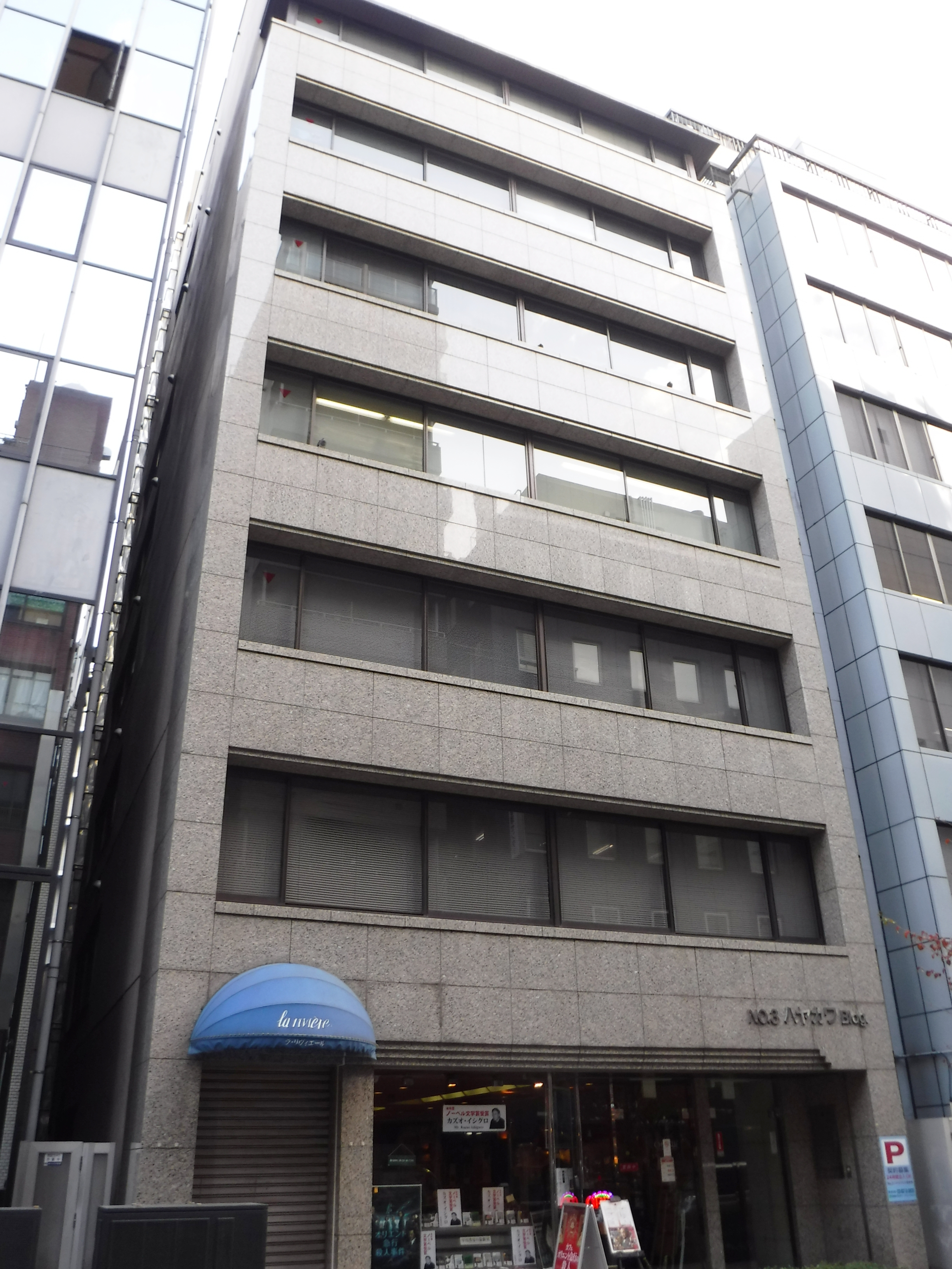 No.3 Hayakawa Bldg. in Chiyoda-ku, Tokyo, Japan.